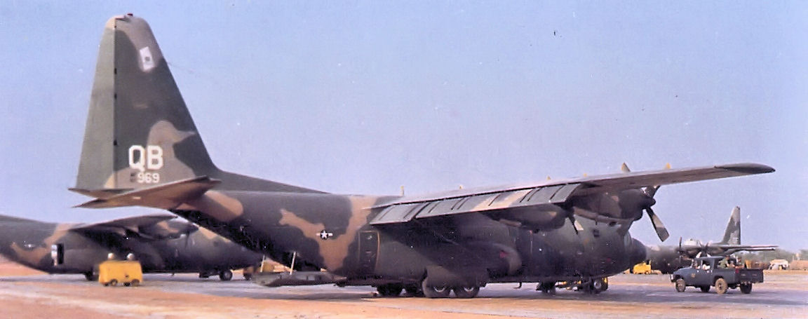 463d Tactical Airlift Wing 29th TAS Lockheed C-130B-LM Hercules 61-0969 July 1969 at Cam Rahn Bay AB Souh Vietnam